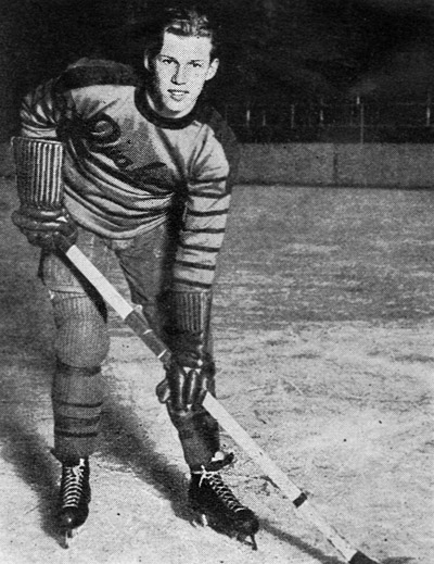 Future Hockey Hall of Famer as a member of the NHL Philadelphia Quakers (1930-31).